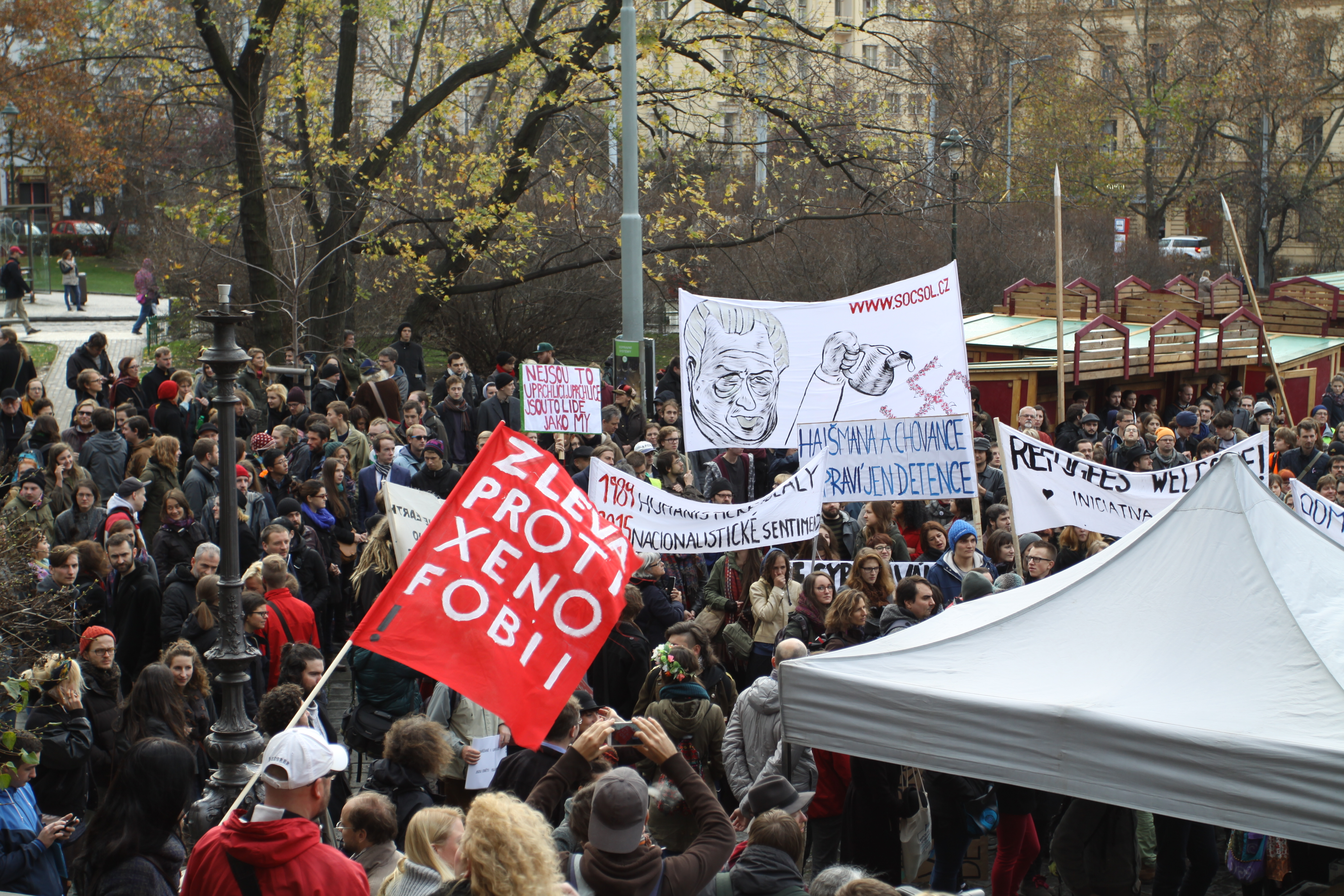 Demonstration called "Tahle Země patří všem "REFUGEES WELCOME"" on the occasion of the state holiday of 17th of Ocotber, Prague, Czech Republic.